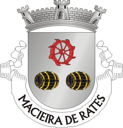 Crest of Macieira de Rates, a parish in the municipality of Barcelos (Portugal)